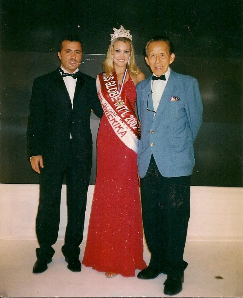 This is a picture from the 2002 Miss Globe Pageant